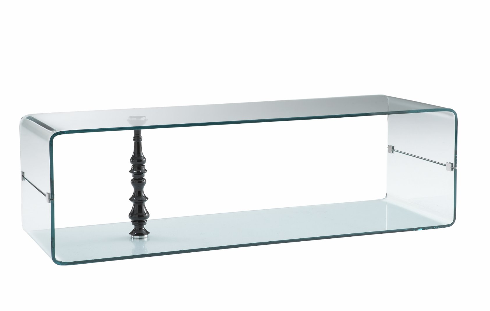 Photo of industrial designer Brad Ascalon's "Spindle Table" for the French company Ligne Roset.